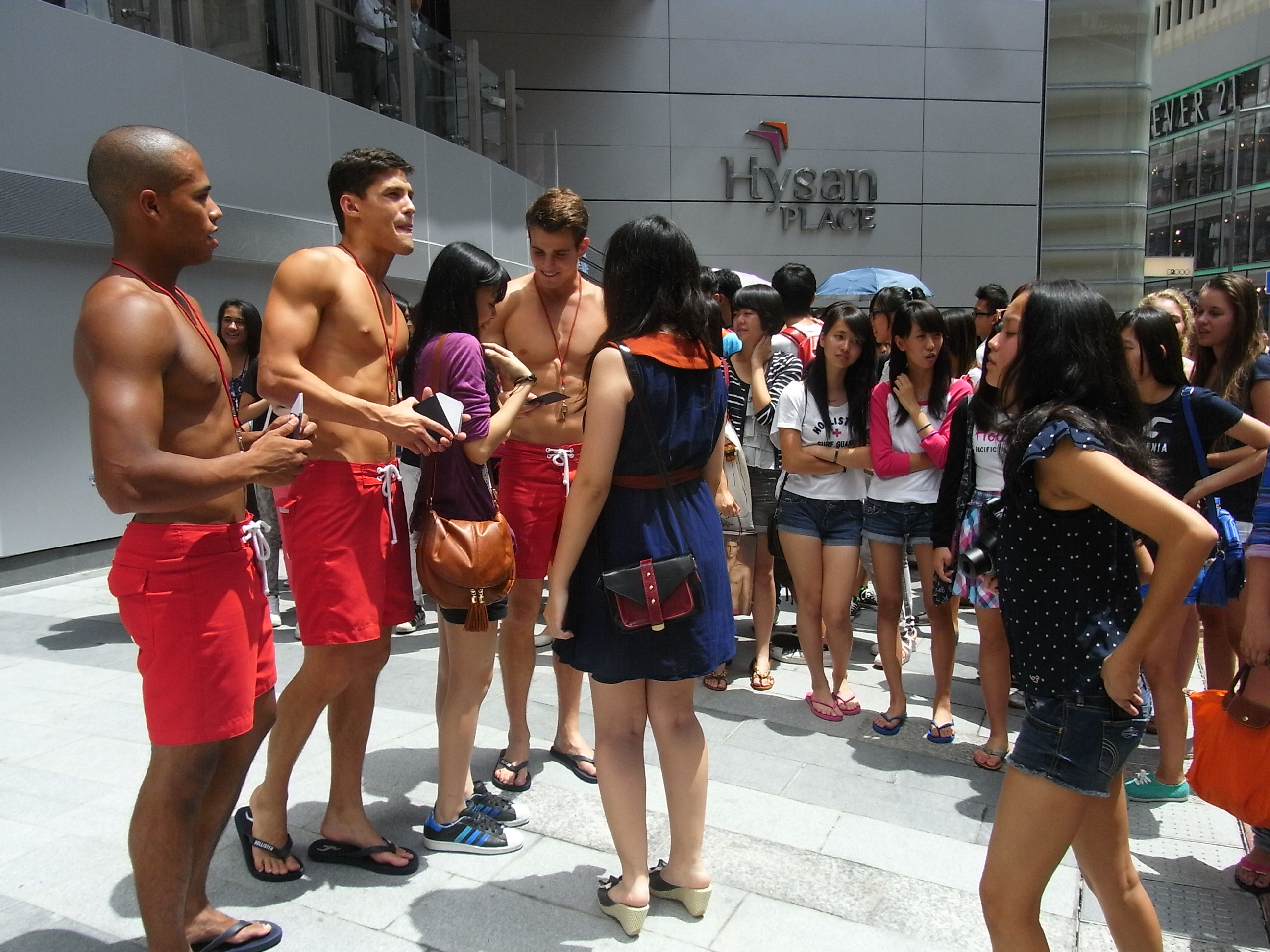 落區 Photography @ fans meeting, Hysan Place, Kai Chiu Road, Causeway Bay, Hong Kong